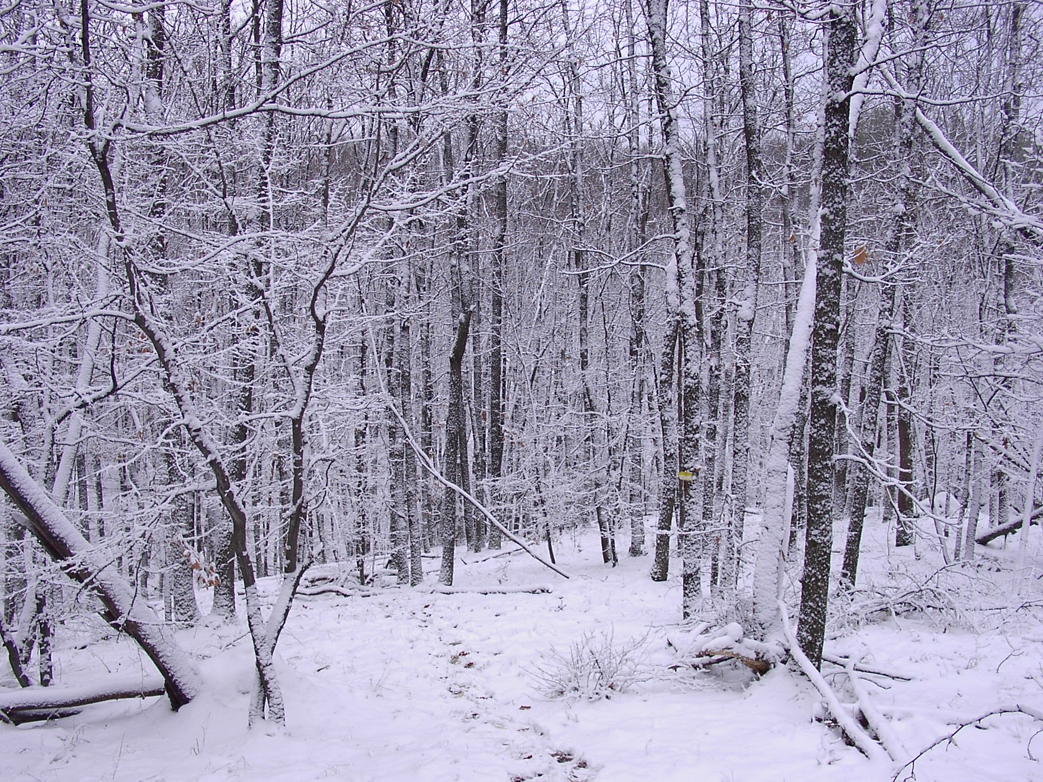 .the.forest.